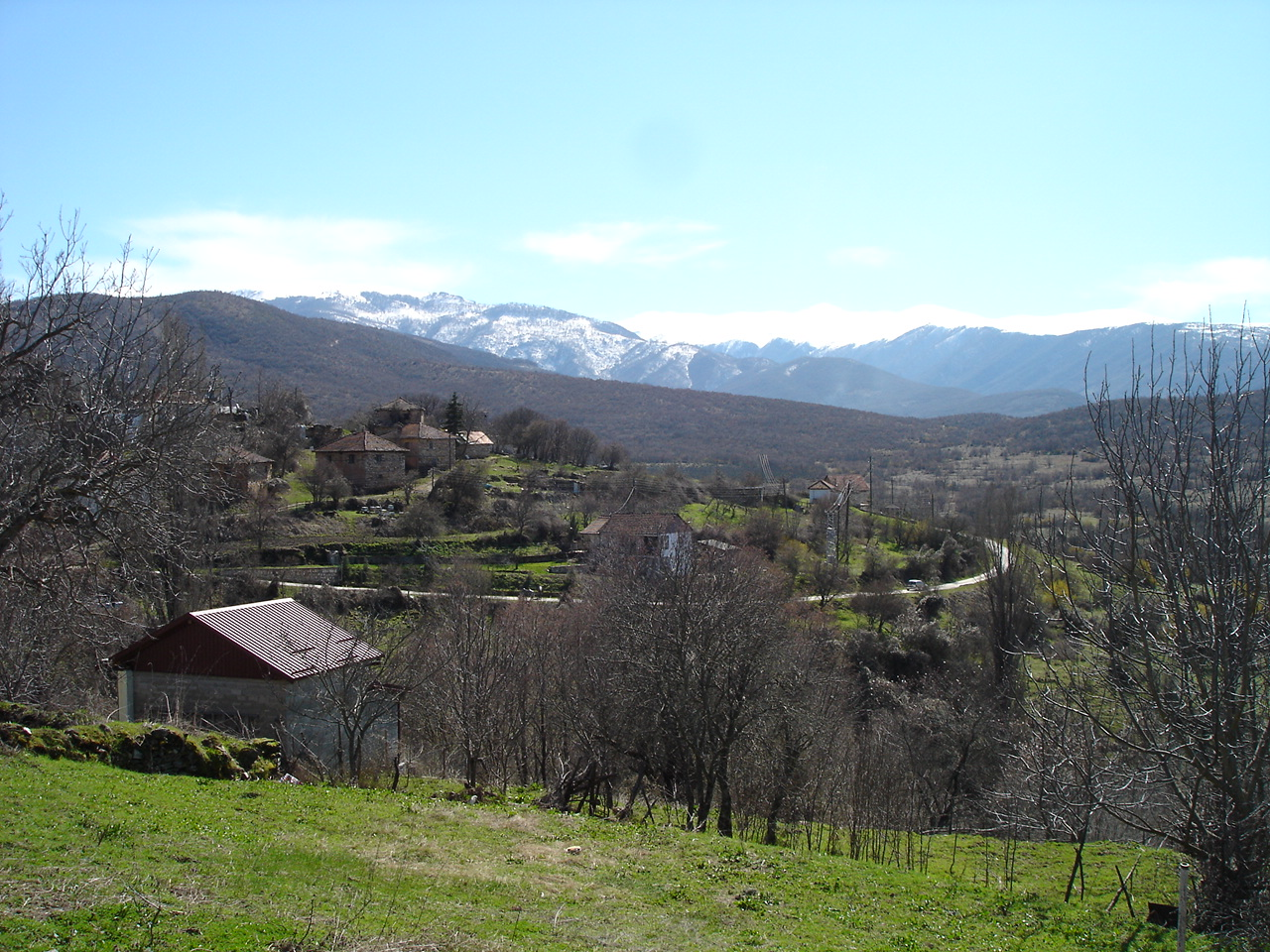 village of Osinchani, in Studeničani Municipality, near Skopje, Macedonia